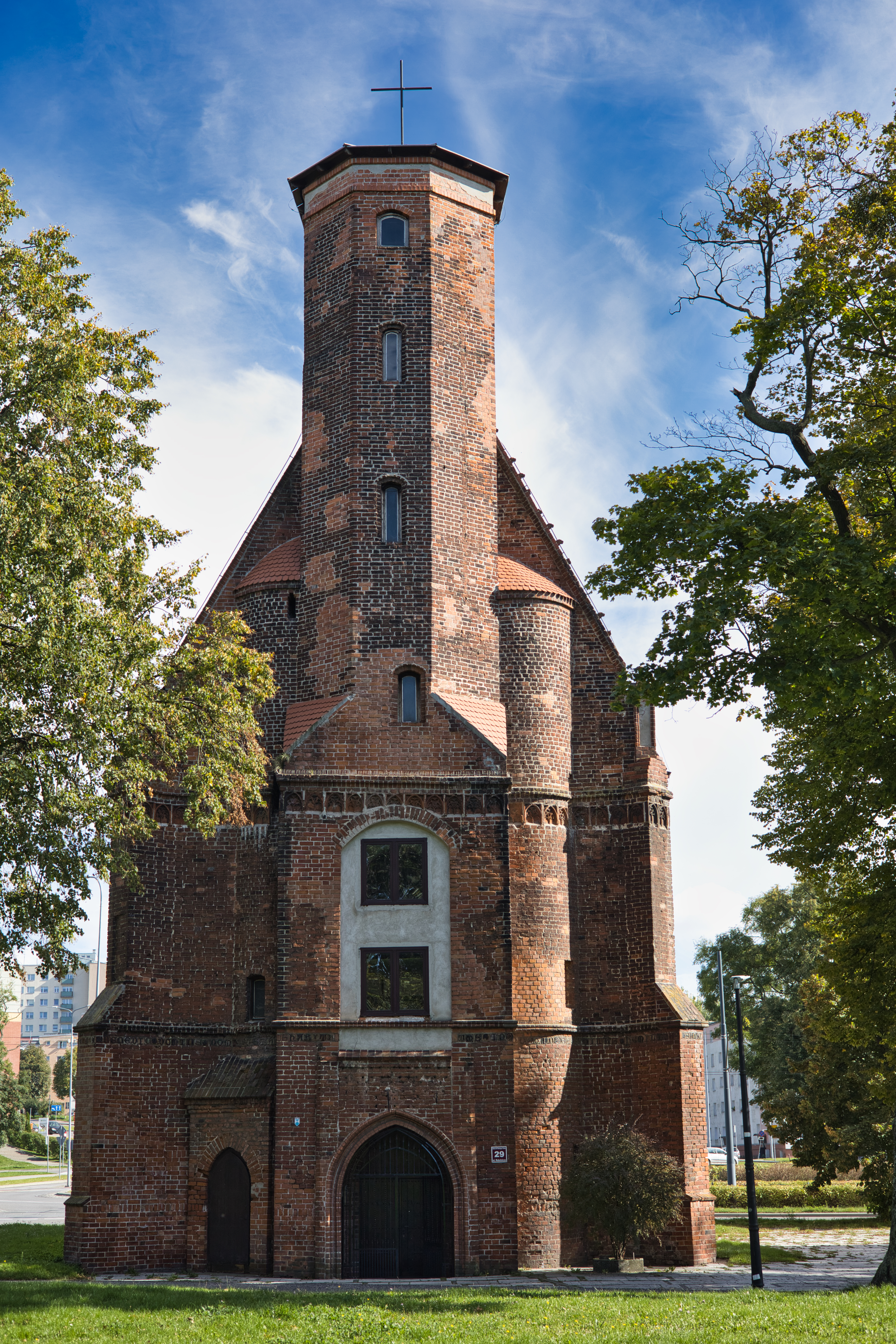 View of Corpus Christi Church in Elblag from part of Robotnicza Street